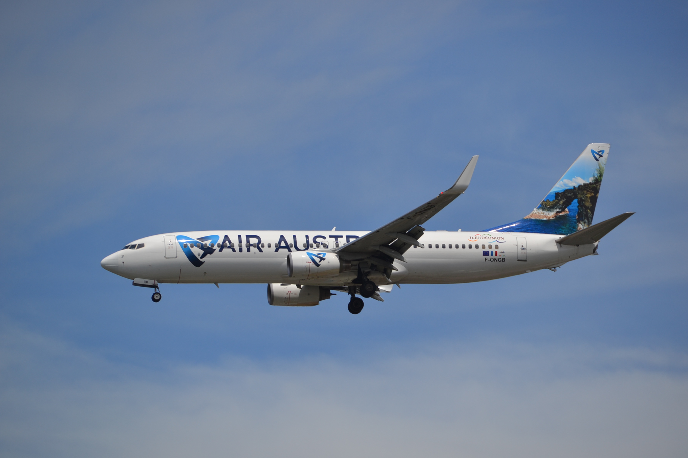 Boeing 737/8 of Air Austral in spl.clrs. on final approach to rwy.01R at Bangkok-BKK, 09/09/15.